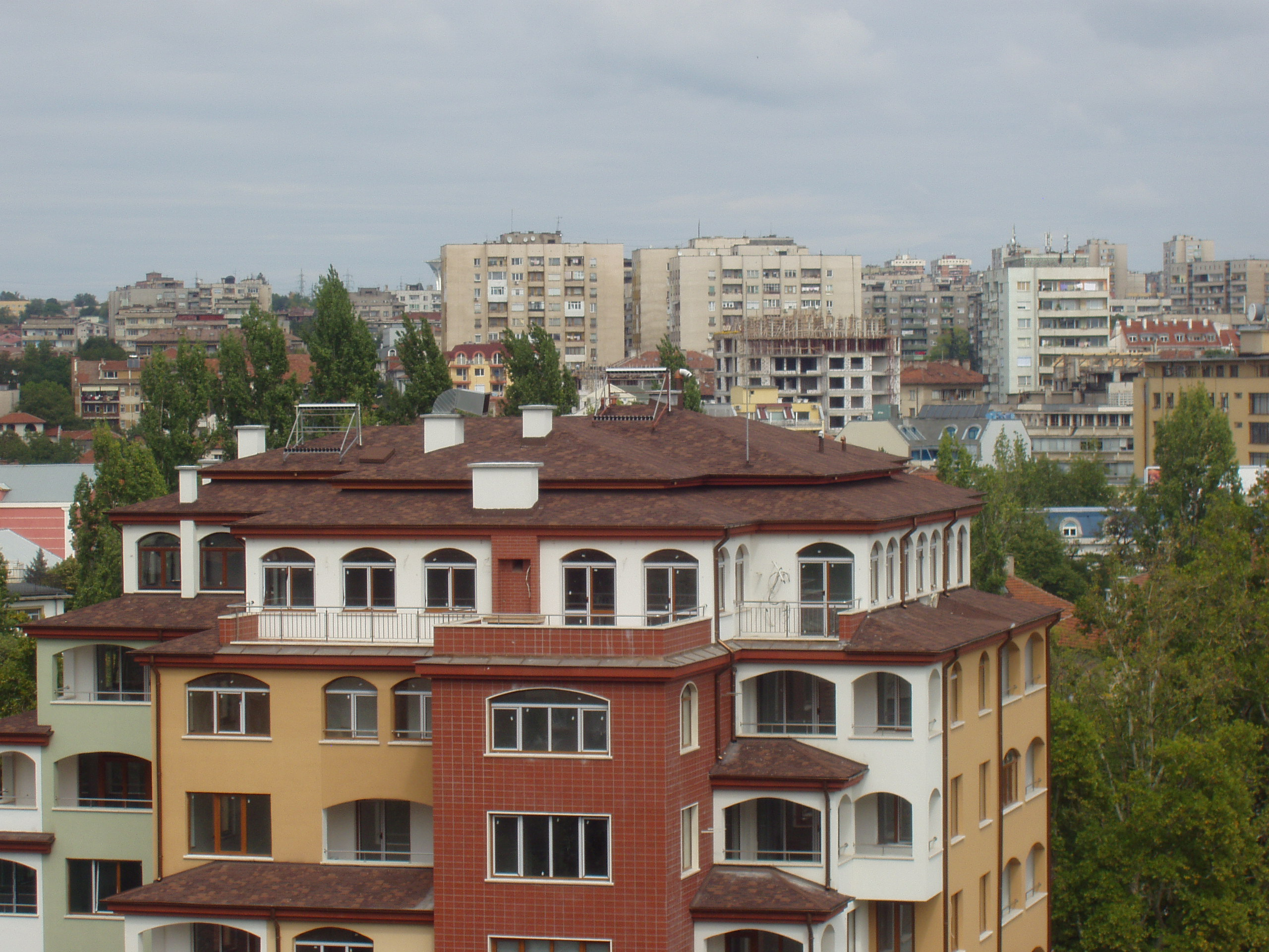 The Bulgarian city of Haskovo – panorama as seen from virgin Mary monument.